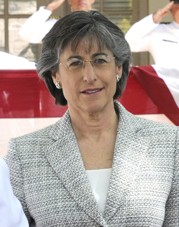 Hawaii Gov. Linda Lingle is piped through the side boys after attending a retirement ceremony for Lt. Cmdr. Majelle Stevenson of the Civil Engineering Corps. Lingle presented Stevenson a letter of appreciation from the state of Hawaii for her 20 years of service in the U.S. Navy. (U.S. Navy photo by Mass Communication Specialist 2nd Class Ronald Gutridge/Released)